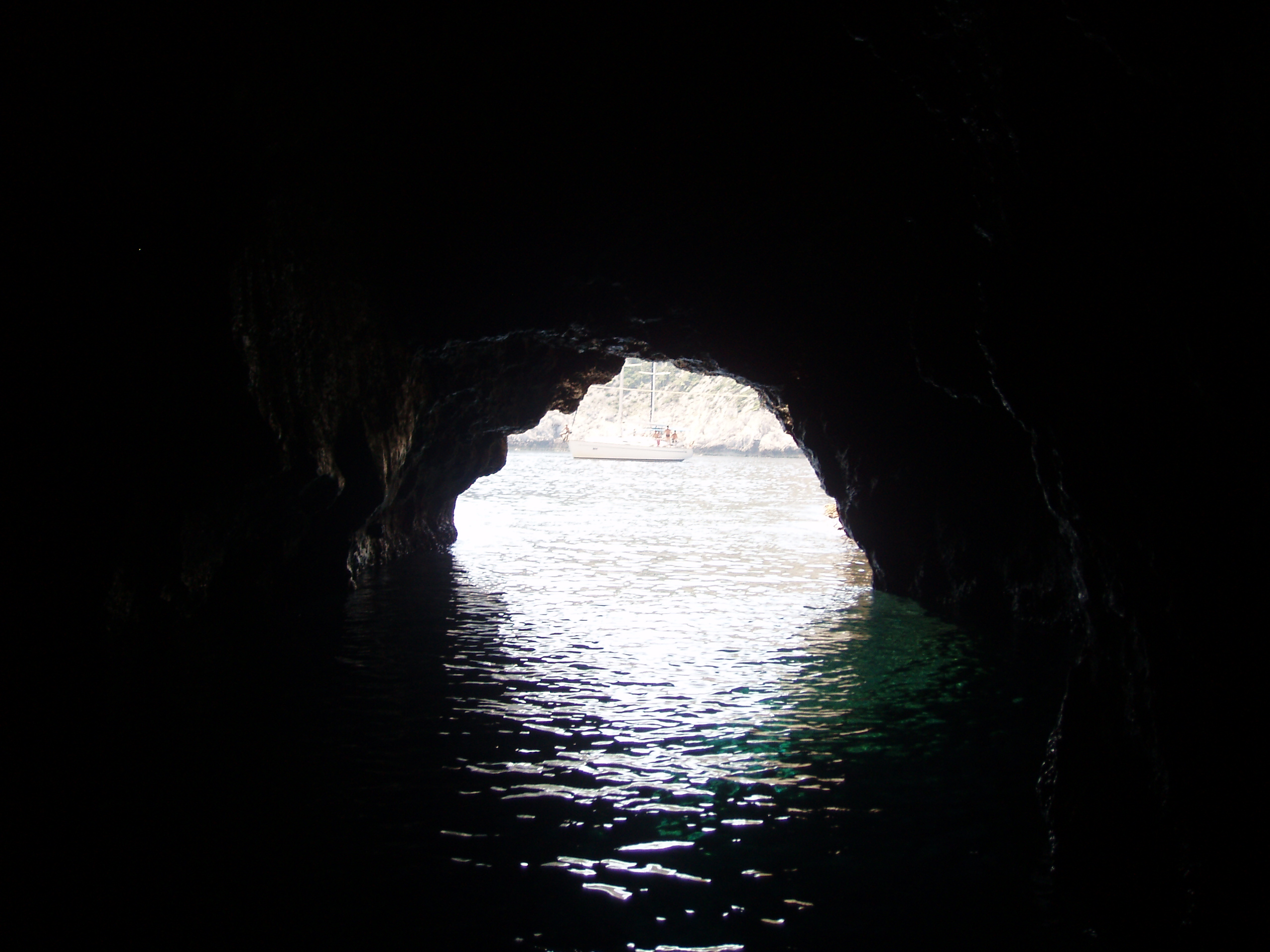 Exit from the blue cave - Biševo Island - Croatia